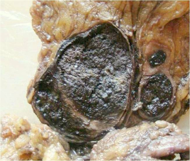 Gross appearance of lymphnode metastasis from melanoma